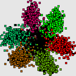 PCA representation of triplet usage for Streptomyces coelicolor genome